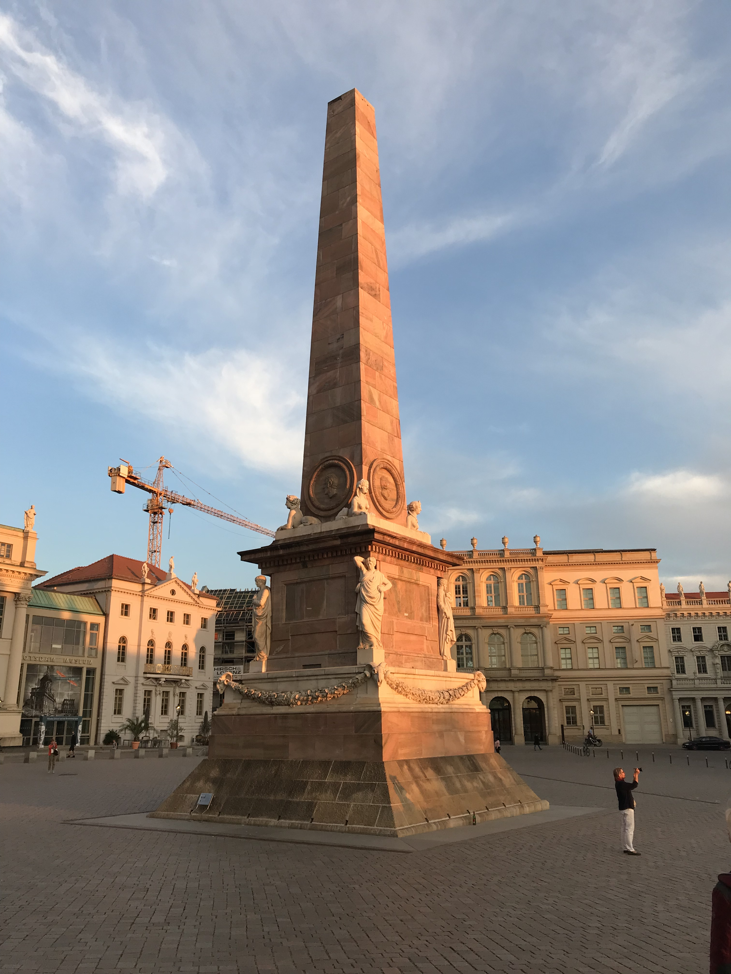 The Marble-Obelisk at the Alter Markt in Potsdam